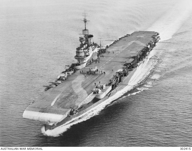 AWM Caption: "c.1942. Aerial port bow view of the aircraft carrier HMS Illustrious. Note the type 281 radar aerials at the head of the foremast and mainmast. The 281 aerial on the foremast is surmounted by a type 291 radar aerial. The large cylinder on the foremast contains a type 72 homing beacon. Note the twin 4.5 inch Mark II mountings recessed into the flight deck and the eight barrelled 2 pounder AA mounting sited just before the island. A Swordfish torpedo spotter reconnaissance aircraft is being manhandled on the flight deck. Collapsed crash barriers straddle the deck abreast the island and arrestor wires can be seen aft. The plume of smoke forward indicates wind direction and speed. The ship is painted in an admiralty disruptive camouflage scheme which extends across the flight deck."